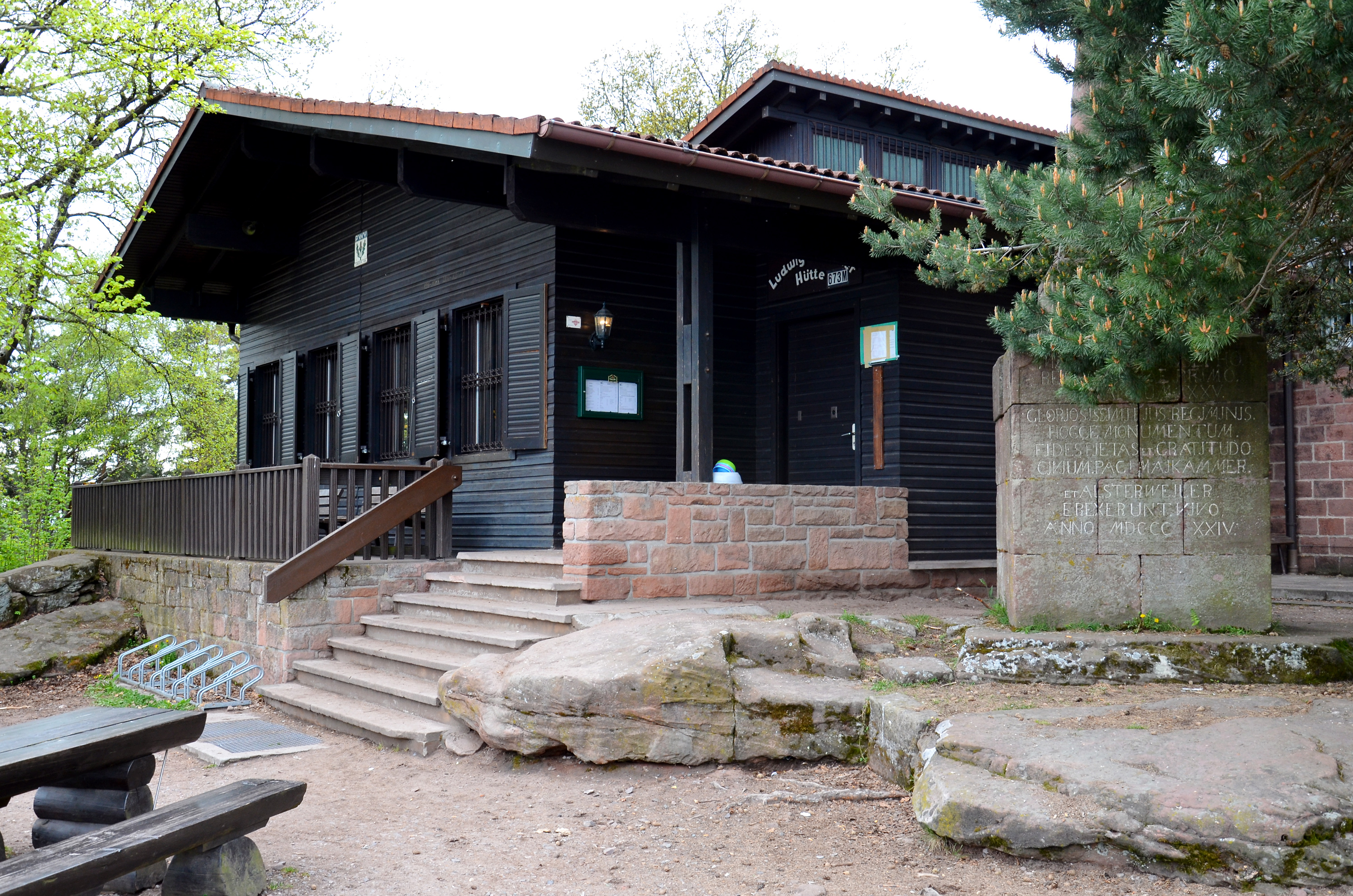 Kalmit